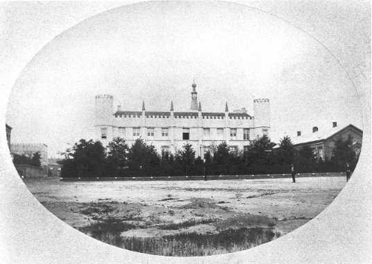 East side of the Palace-Council House in Tilburg, part of the present day city hall of the municipality Tilburg.